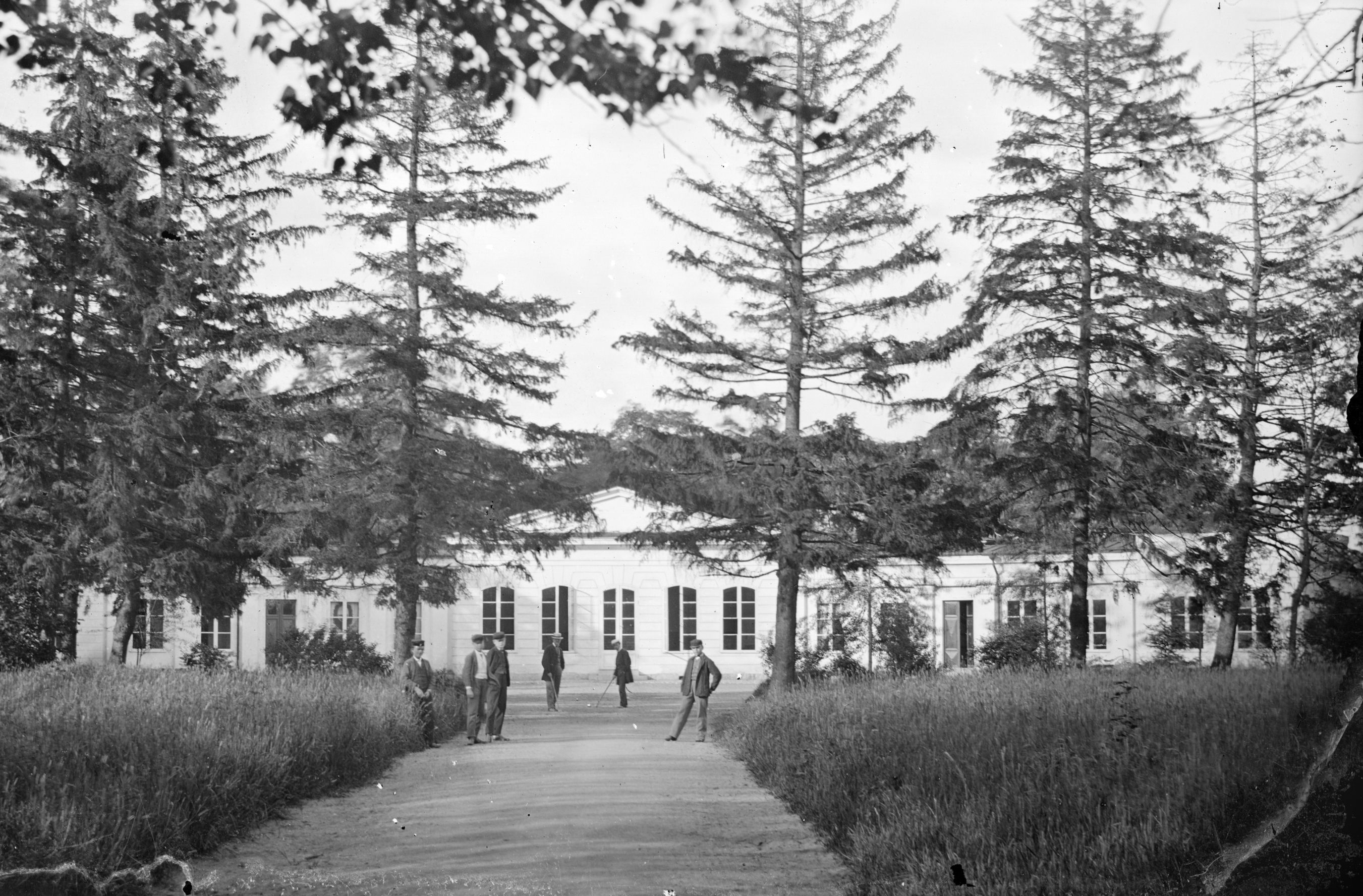 Östgöta Nation, Uppsala. First nation house 1817-1885. Greenhouse Linnaean garden. Before1885.